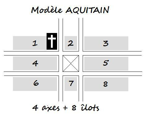 Bastide (town) - map Aquitain